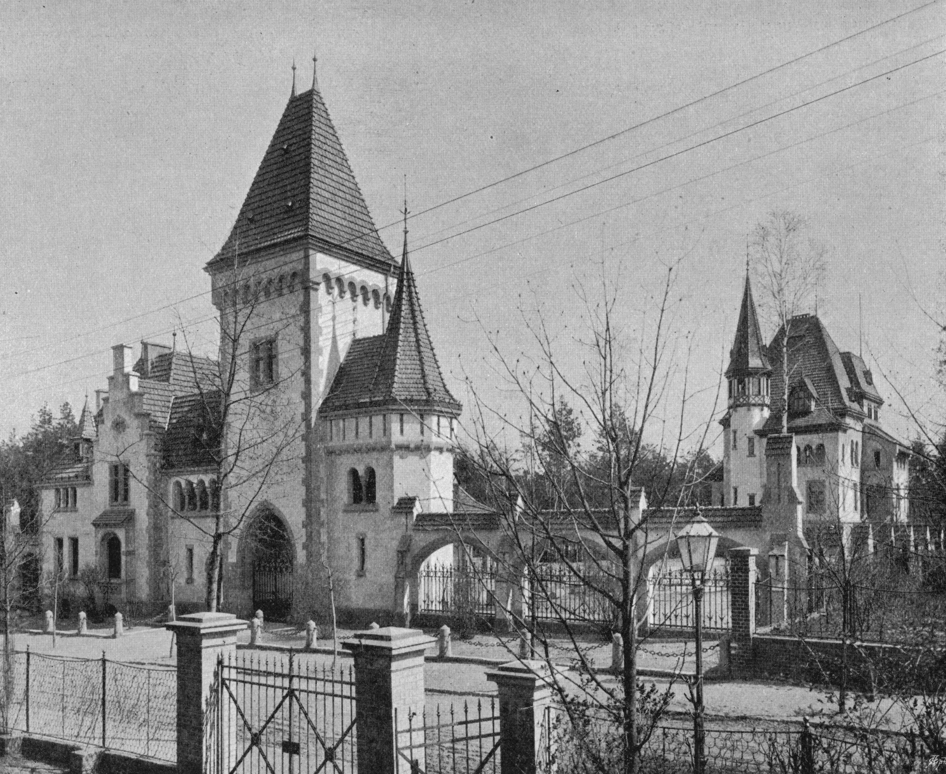 Villa Ebeling, Wannsee (Berlin-Wannsee, Germany), Gate House and Stables, Erdmann and Spindler, Architects, Berlin